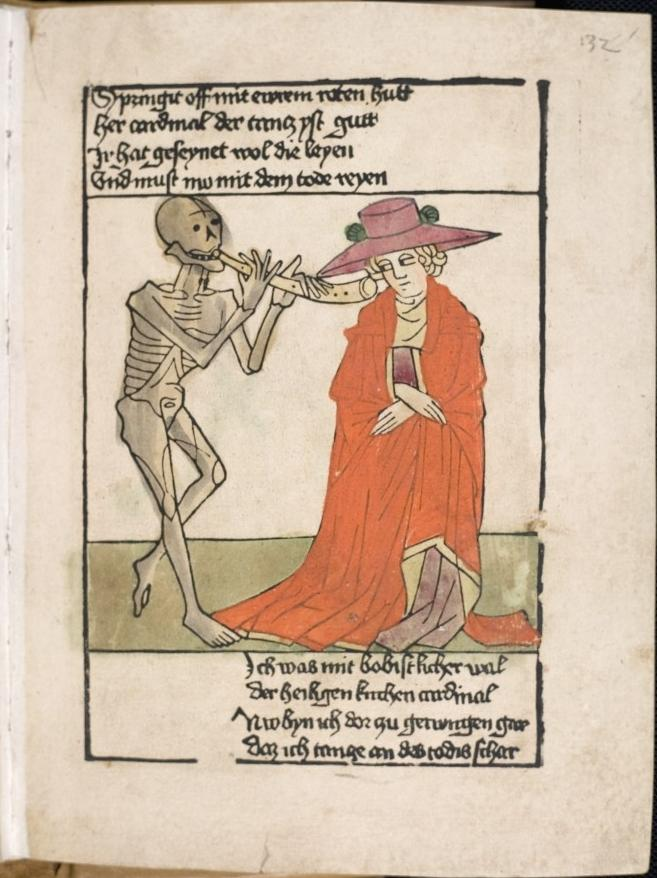 Totentanz (Danse Macabre) in blockbook format: oldest surviving book illustrations of the genre.